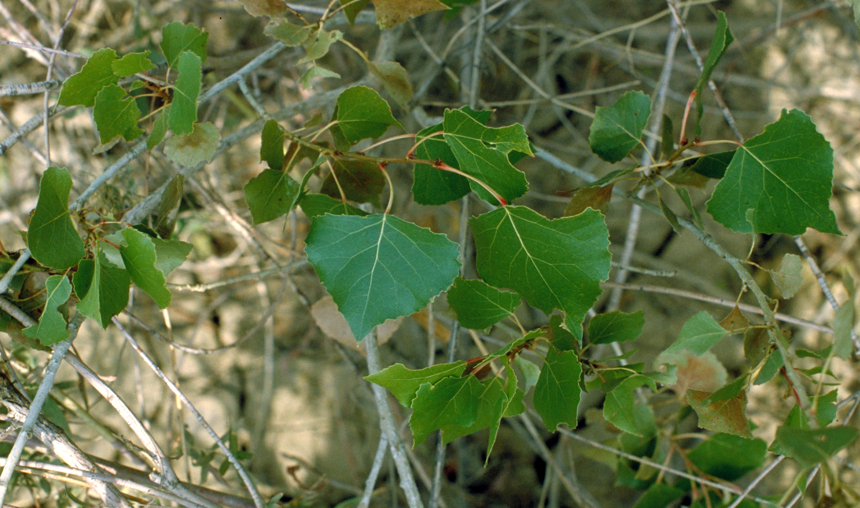 Populus deltoides subsp. monilifera foliage